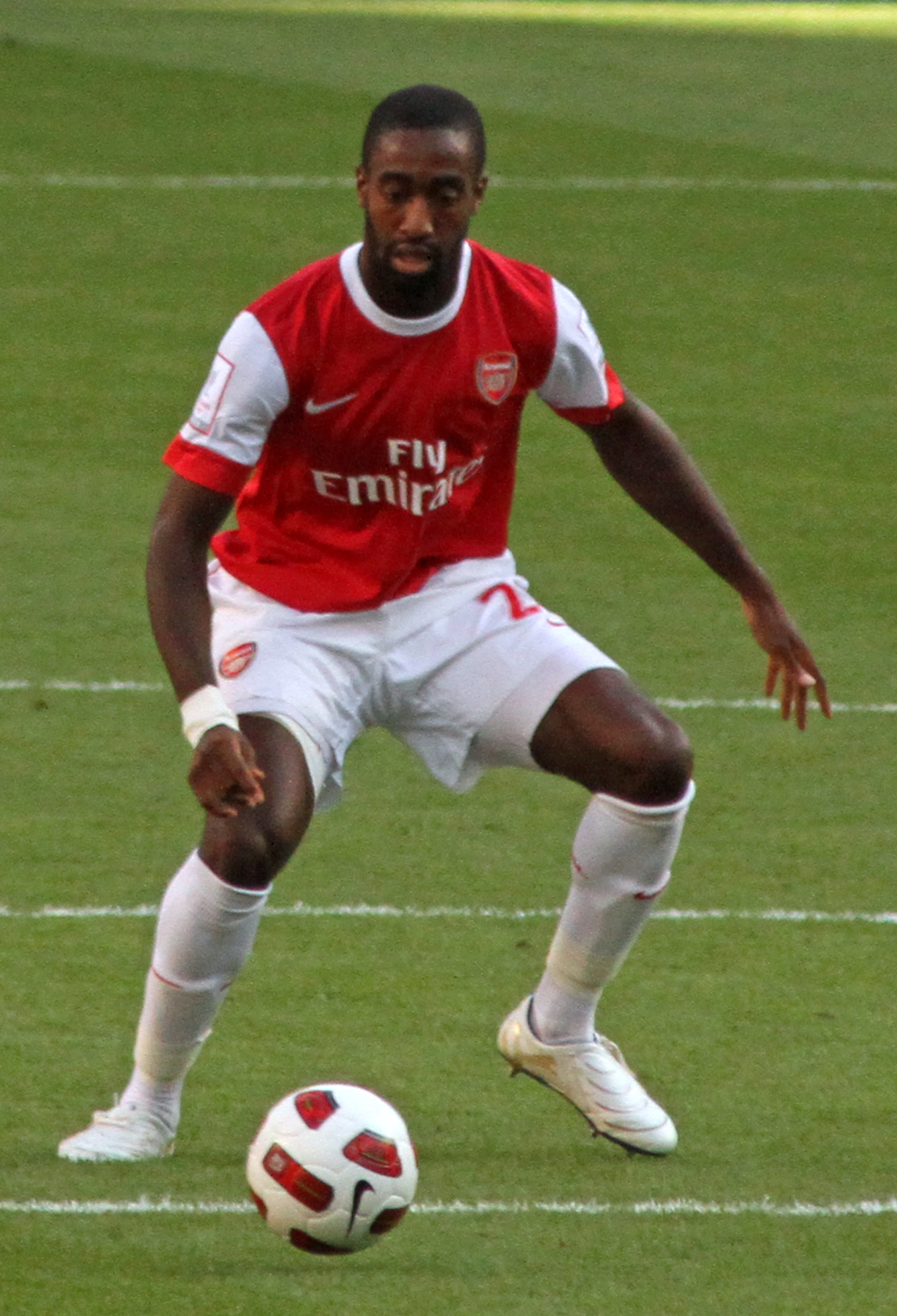 Swiss football player Johan Djourou while playing for Arsenal F.C.